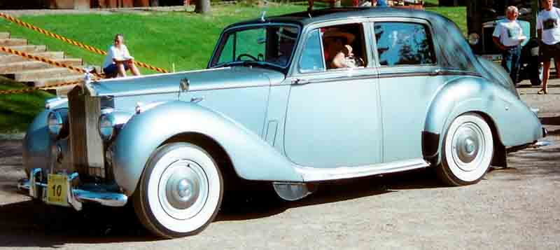 Rolls-Royce Silver Dawn 4-Door Saloon 1954